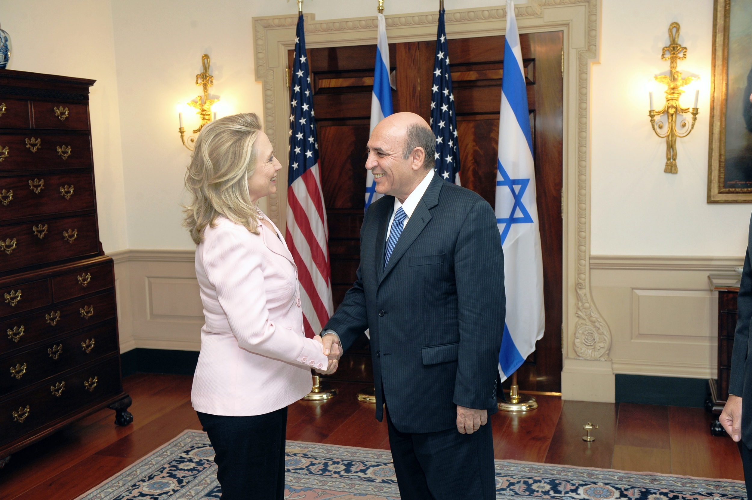 U.S. Secretary of State Hillary Rodham Clinton meets with Israeli Deputy Prime Minister Shaul Mofaz at the U.S. Department of State in Washington, D.C., on June 20, 2012. [State Department photo/ Public Domain]